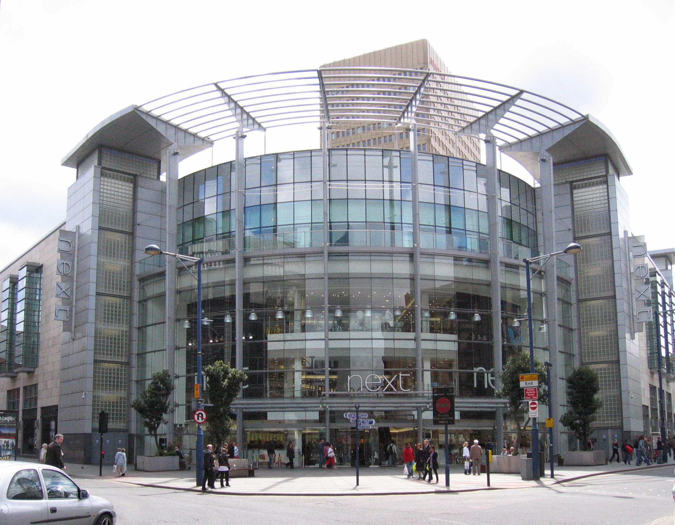 Manchester Arndale, at the junction of Corporation Steet and Withy Grove (May 2009).